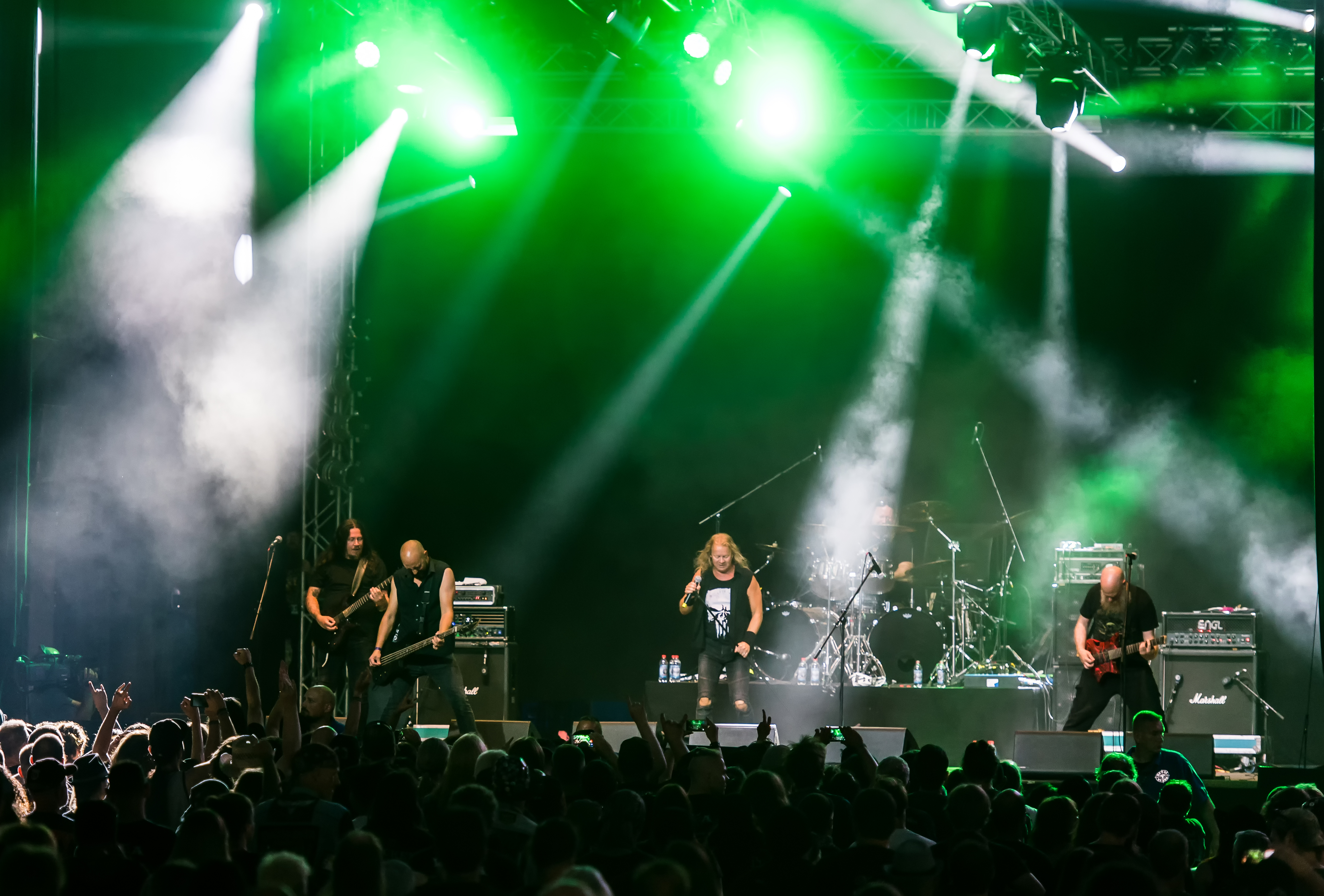 Nochturnal Rites playing at Wacken Open Air 2018